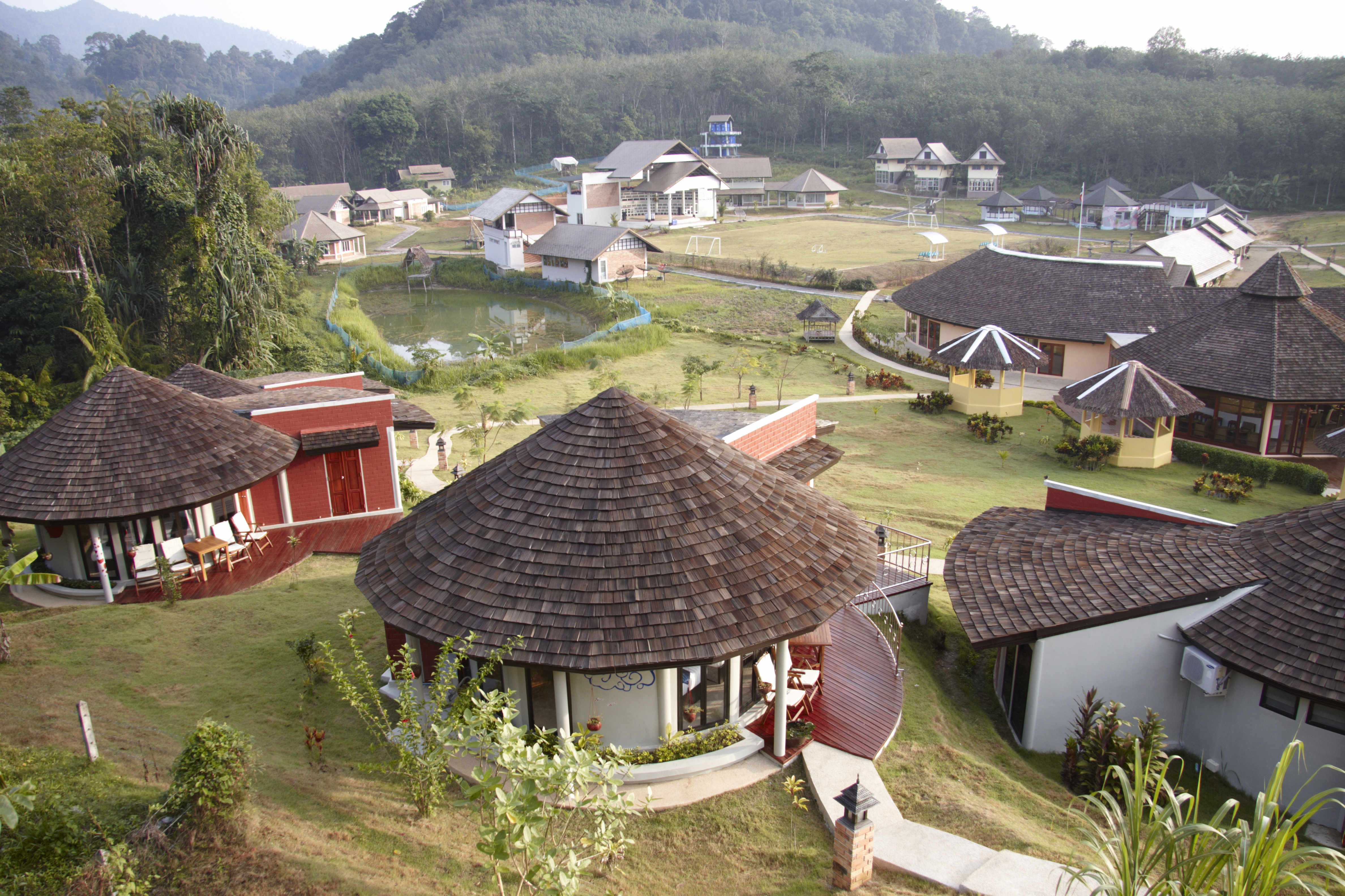 Overview of the Hanseatic School for Life, including the fish pond, auditorium, soccerfield, and some guest houses